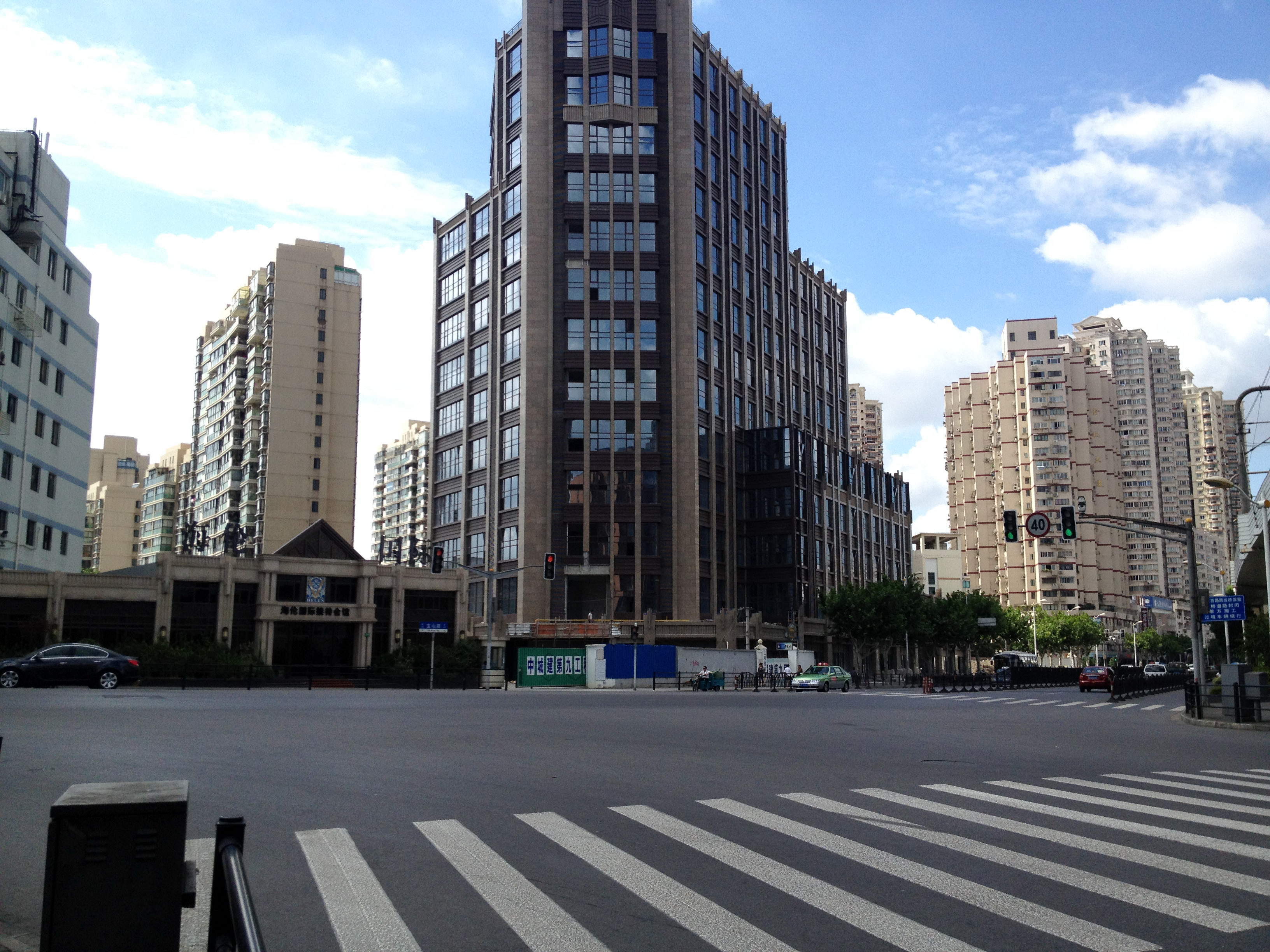 Baoshan Road Shanghai 8-6-2012